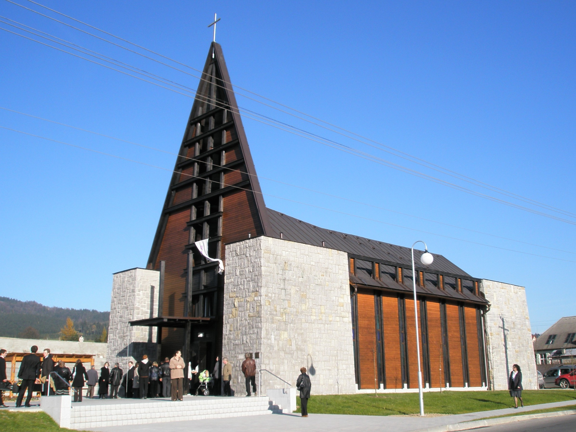 Lutheran church in Písek in the day of its consecration